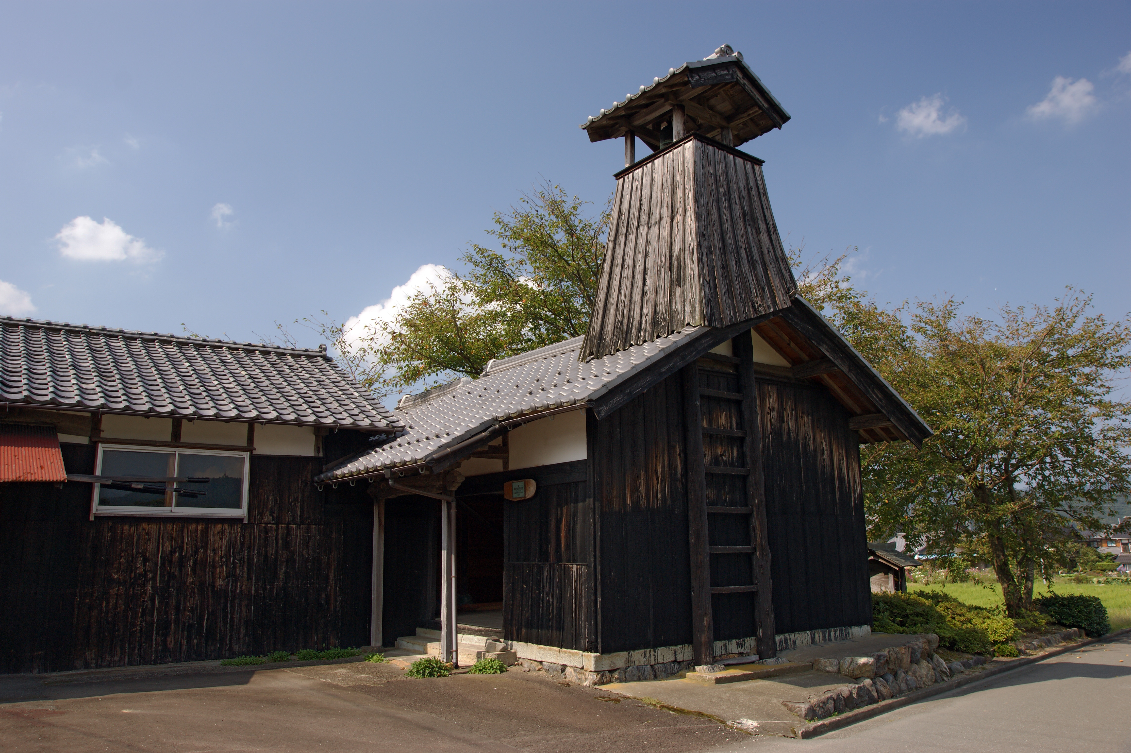 Miyakeku-hinomiyagura, Wakasa, Fukui prefecture, Japan